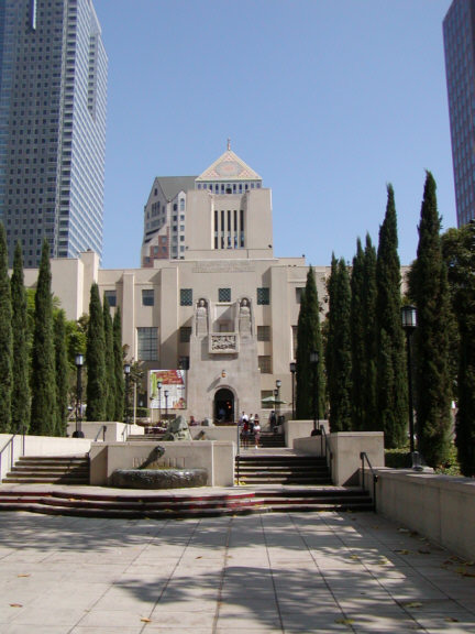 Los Angeles Public Library designed by Bertram Goodhue. Photo by Walt Lockley